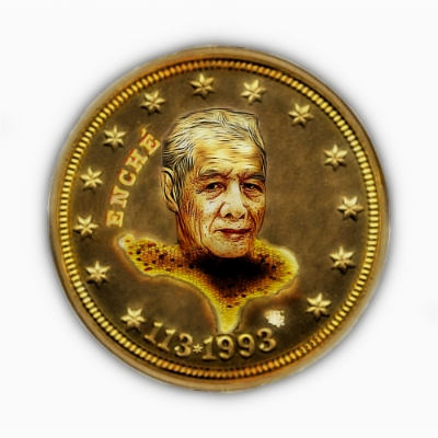 Marhum Baginda Enche Tuan Bali Jawa, Mahmoodiah